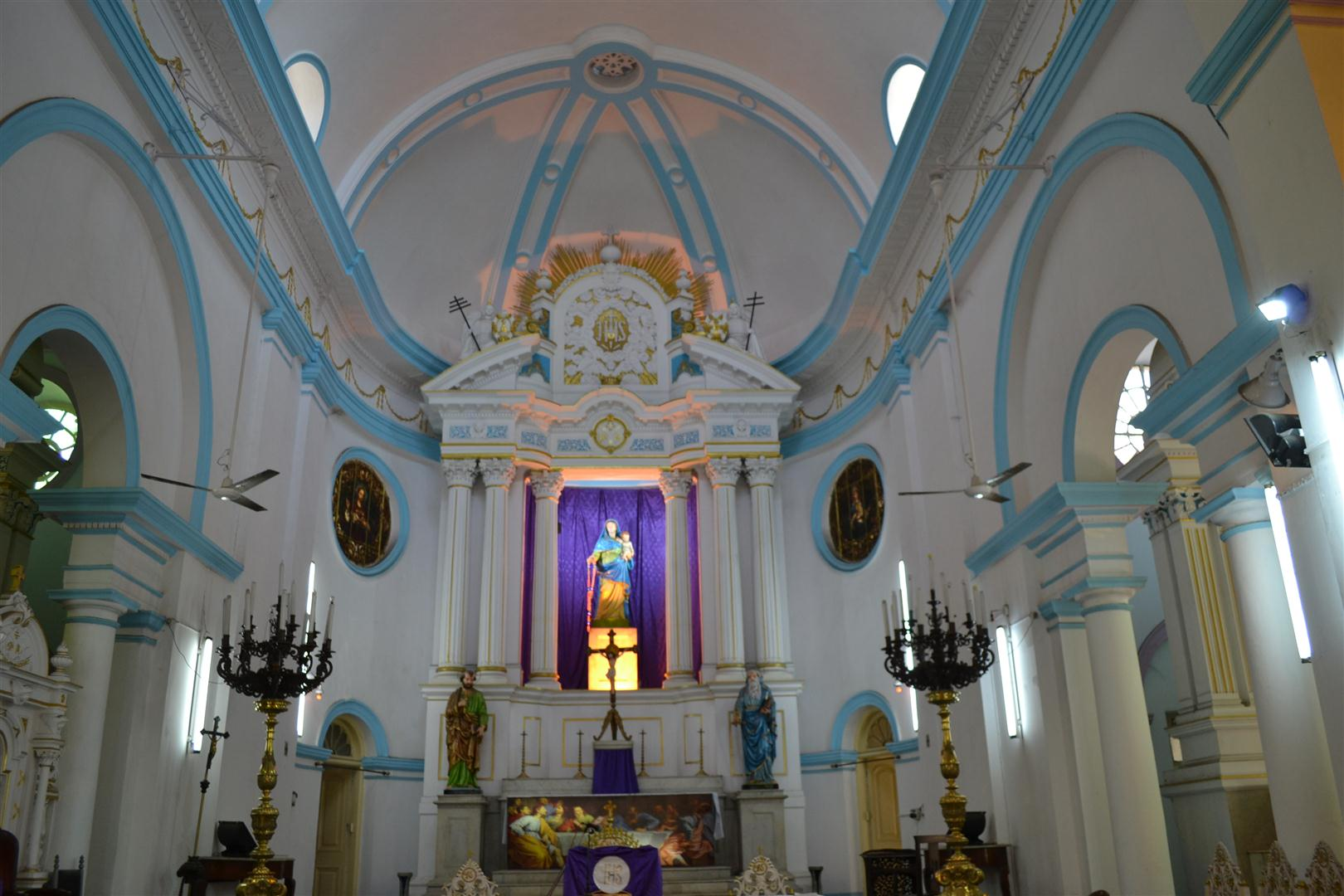 Inside the Charch